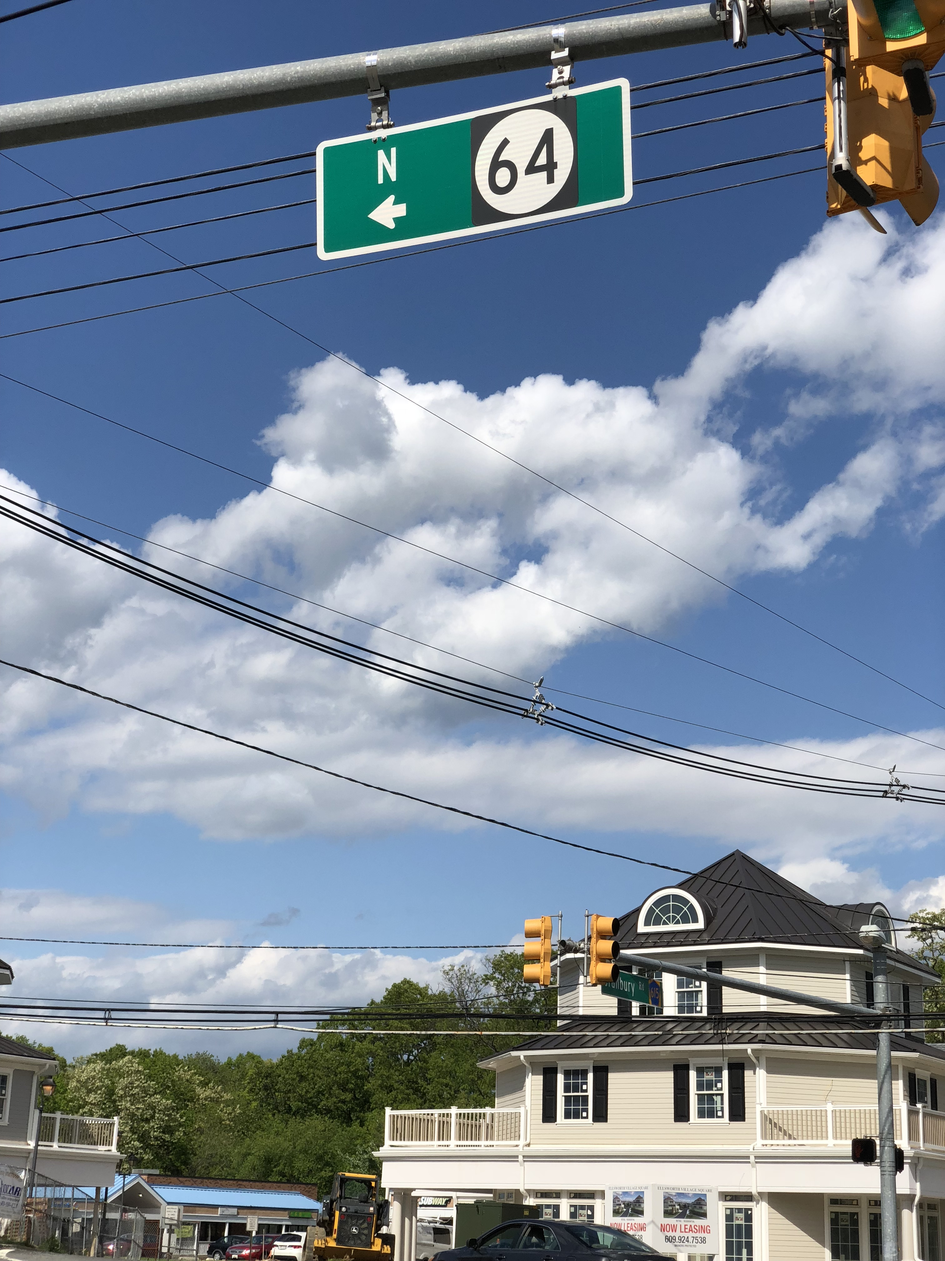 Traffic light sign blade for New Jersey State Route 64 at its intersection with Mercer County Route 526 and Mercer County Route 571 (Princeton-Hightstown Road), Mercer County Route 615 (Cranbury Road) and Wallace Road in West Windsor Township, Mercer County, New Jersey